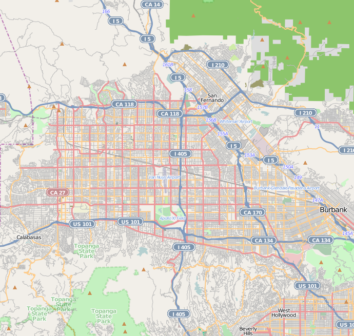 Location map of the San Fernando Valley — Los Angeles County, Southern California. was created from OpenStreetMap project data, collected by the community. This map may be incomplete, and may contain errors. Don't rely solely on it for navigation.